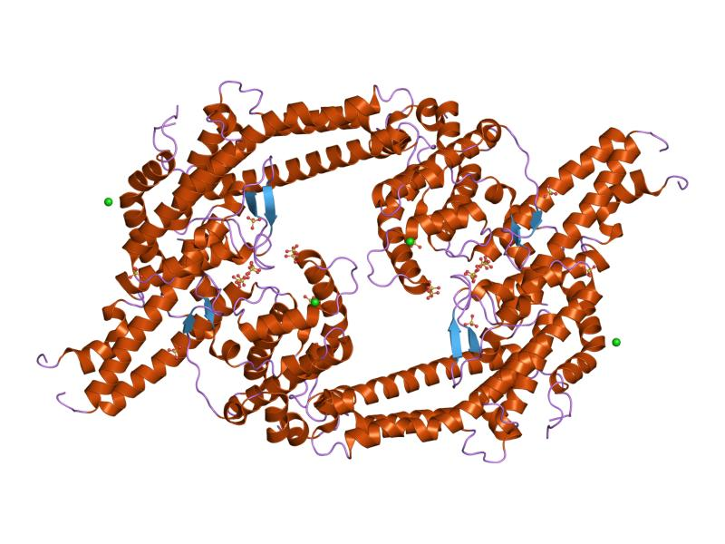 Cartoon representation of the molecular structure of protein registered with 1zro code.